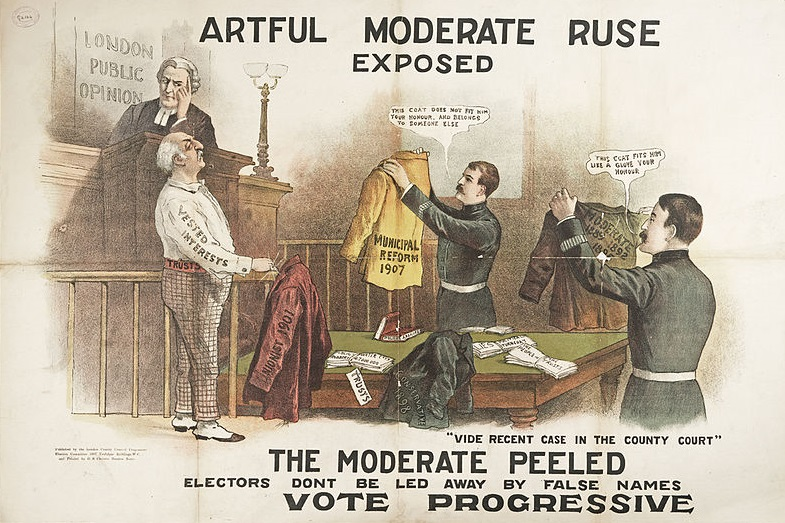 Progressive Party poster from the London County Council Election of 1907. This poster shows a court scene with a judge seated in the top left of the picture with 'London Public Opinion' written behind him. Below him is a portly man with 'Vested Interests' written upon his sleeve. To the right around a table, stand two policemen each holding up a jacket, and more jackets lay upon the table. The more central of the two policemen is saying 'This coat does not fit him your honour, and belongs to someone else'. Upon the coat he is holding is written 'Municipal Reform 1907'. The other policeman declares, 'This coat fits him like a glove your honour'. He is holding a coat marked 'Moderate'. Printer: G.S Christie Limited Publisher: London County Council Progressive Election Committee Place of Production: London Date: 1907 Persistent URL: misc 0840/6')